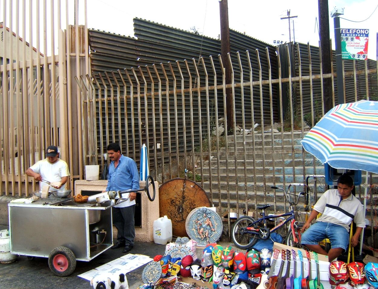 Street vendors at the pedestrian border crossing in Tijuana — with the US-Mexico barrier at their backs.